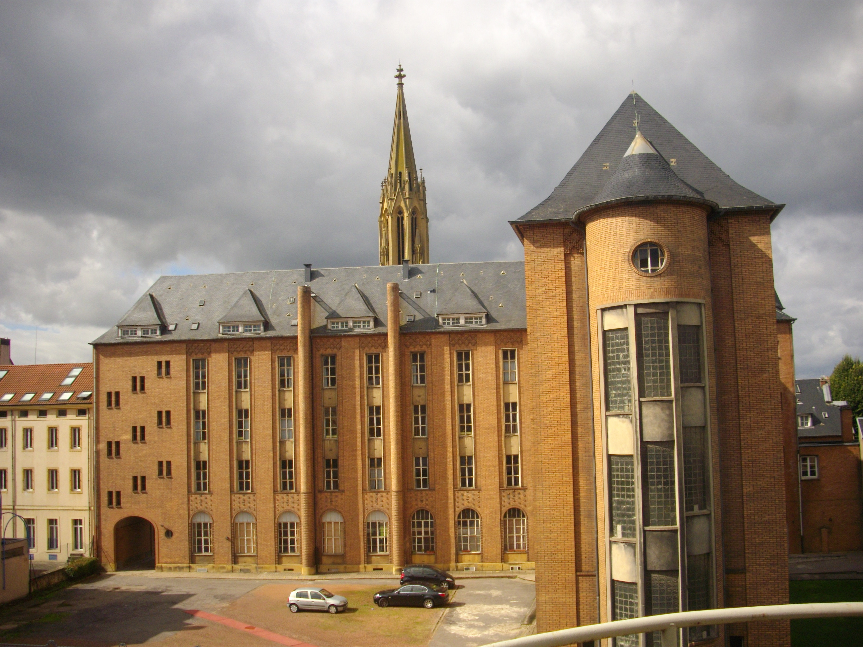 Klosterkaserne in Metz (Moselle, France) ; ; view from the theatre .